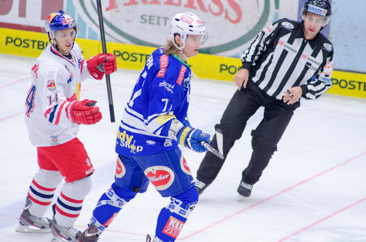 25.10.2013, Stadthalle Villach, AUT, EBEL, 27. Runde, EC VSV vs. EC RED BULL Salzburg, im Bild // frostworx Pictures © 2013, PhotoCredit: frostworx / Alex Micheu